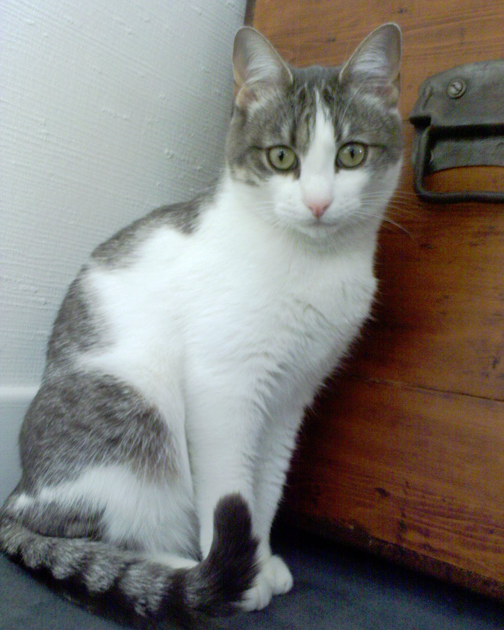 Bilbo le chat